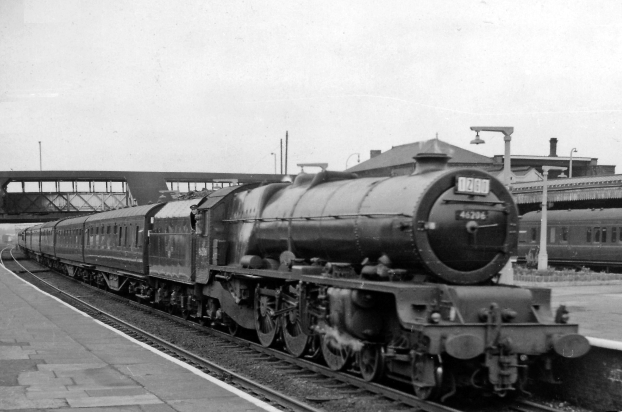 Up Cup Final express passing Willesden Junction. View westwards, towards Watford, Rugby etc.; West Coast Main Line. This is one of the numerous Specials run that day for Cup Final spectators. Heading it is a Stanier 'Princess Royal' Pacific, No. 46206 'Princess Marie Louise' - which was withdrawn - believe it or not - five months later. (See also TQ2182 : Willesden Junction Station (Main Line), with Up express and TQ2182 : Willesden Junction Station (Main Line), with Up Football Special).